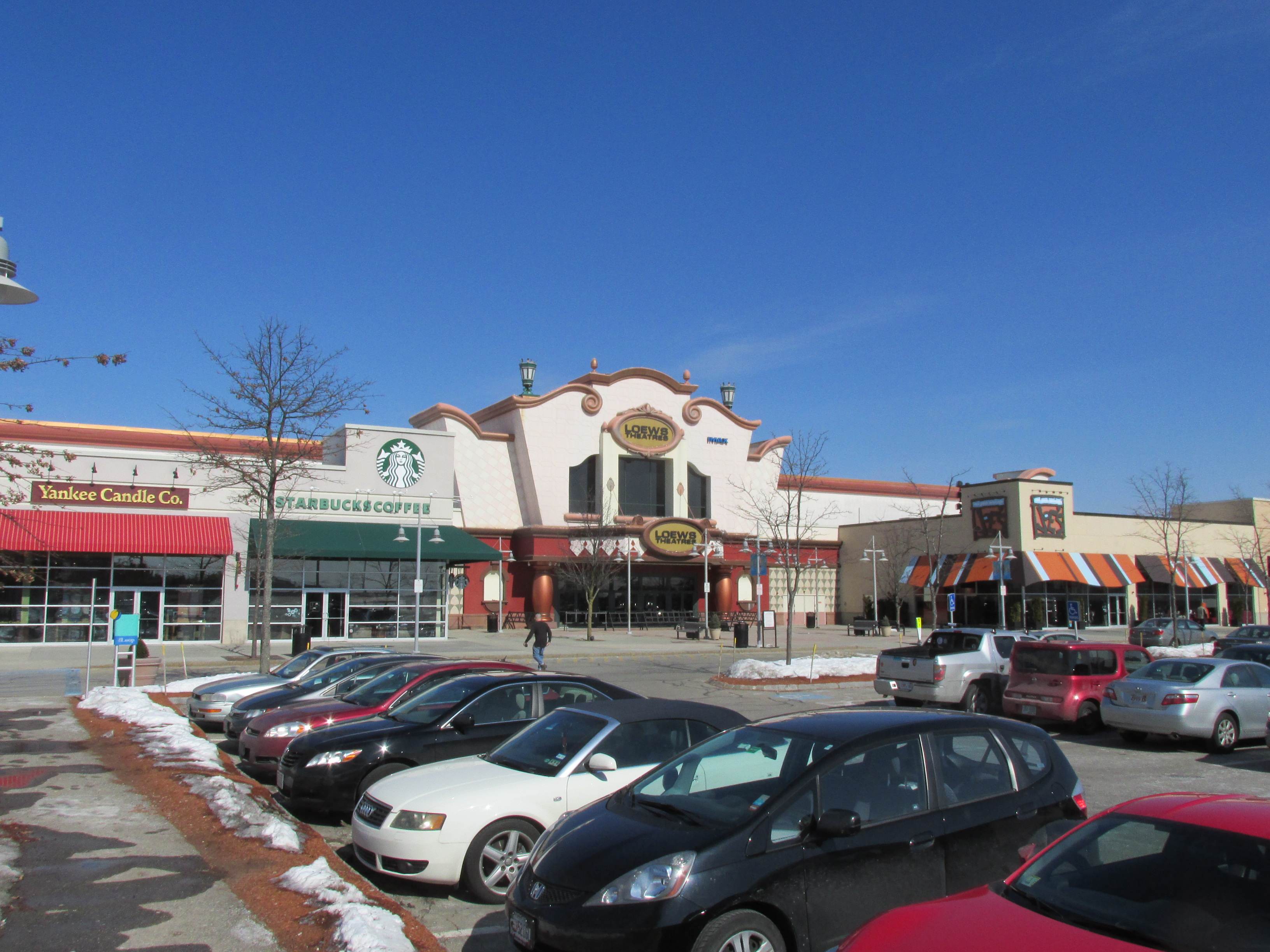 Loews Theatres, The Loop, Methuen Massachusetts - 2014